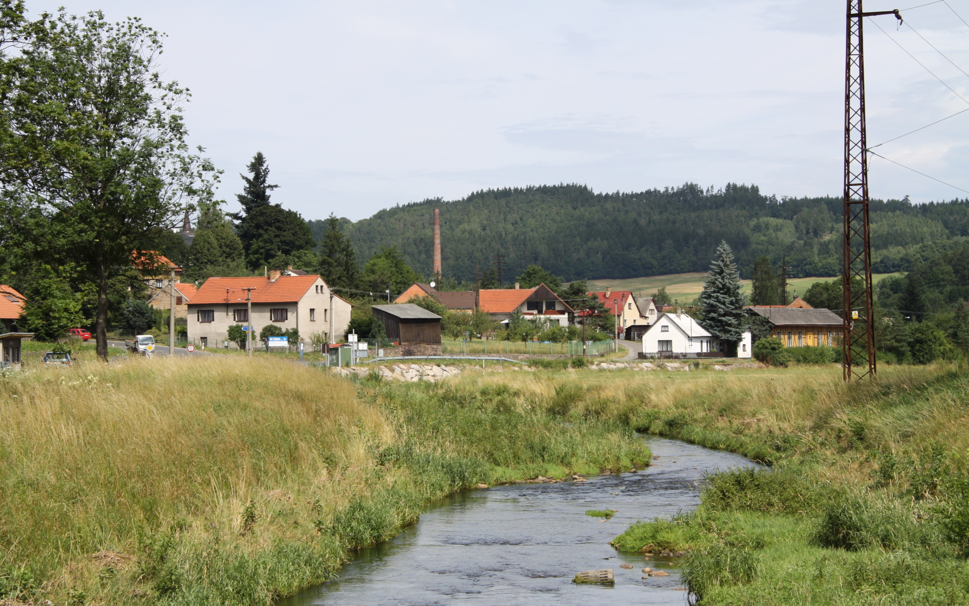 Čenkov village in Příbram District with Litavka River, Czech Republic.